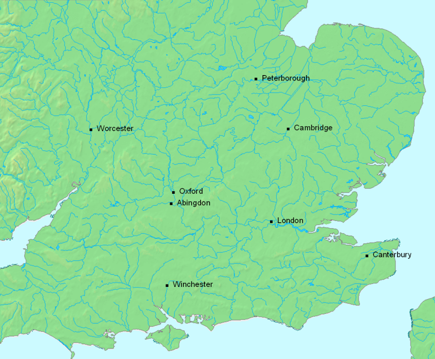 Map of southern England showing places relevant to the Anglo-Saxon chronicle. The file was created using DMIS. On that site it is stated that "We do not claim copyright on the images, so you can use them for Wikipedia."